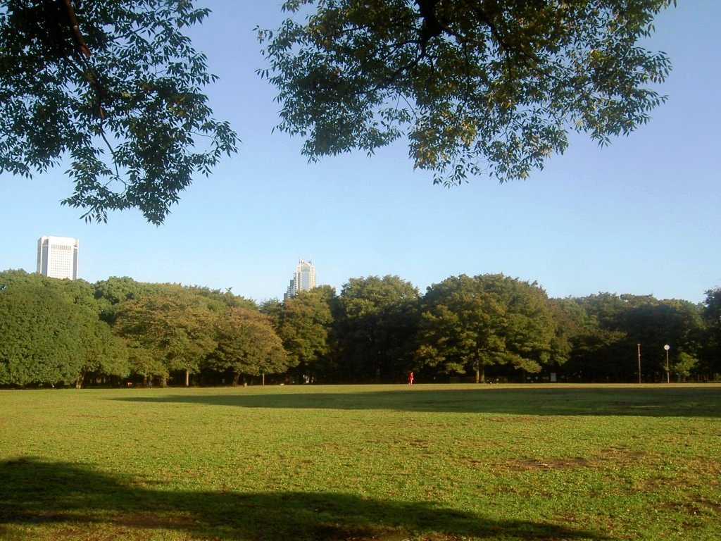 Yoyogi Park, Shibuya, Tokyo. Skyscrapers in Nishi Shinjuku district such as Tokyo Opera City Tower (left) or Shinjuku Park Tower (center) stands behind.